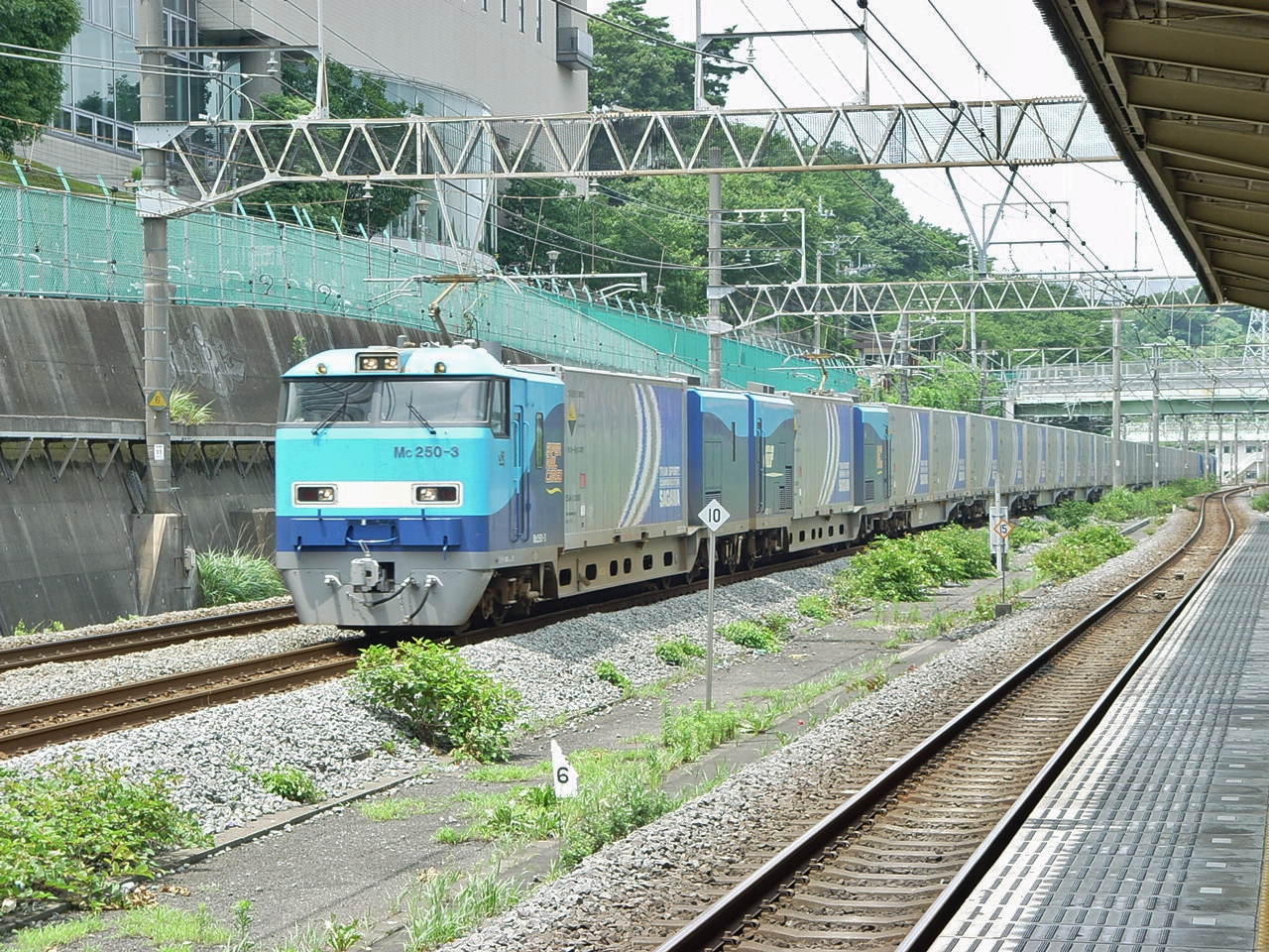 M250 "Super Rail Cargo" set on test run at Higashi-Totsuka station